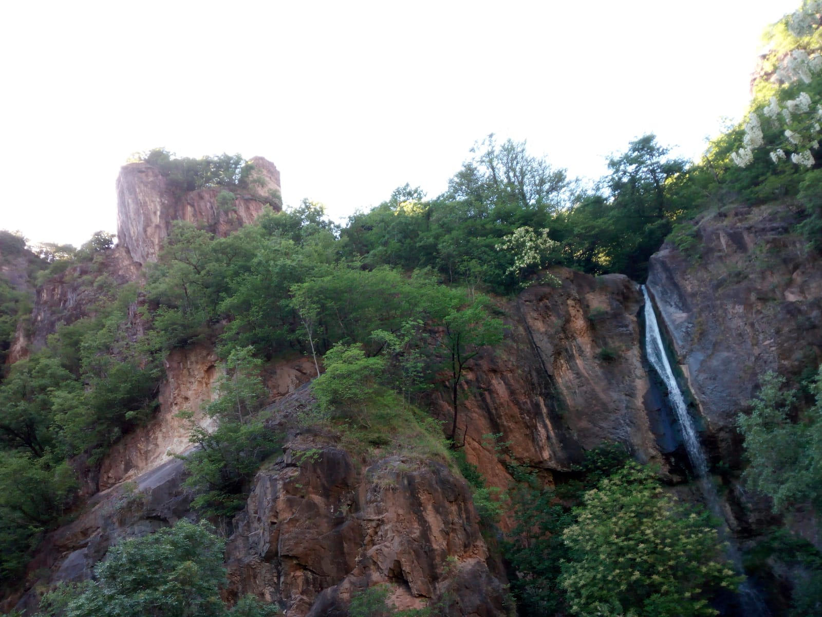 Walbenstein castle with the small waterfall near Gries-Bozen